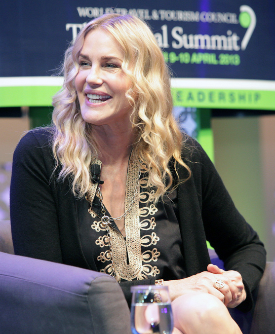 American actress and activist Daryl Hannah at World Travel & Tourism Council's 2013 Global Summit in Abu Dhabi.